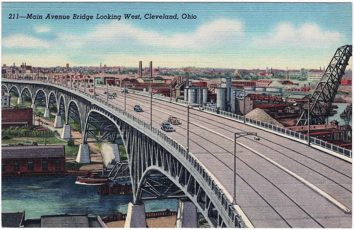 Main Avenue Bridge Looking West, Cleveland, Ohio vintage postcard. Also called the Main Avenue Viaduct and Harold H. Burton Memorial Bridge.